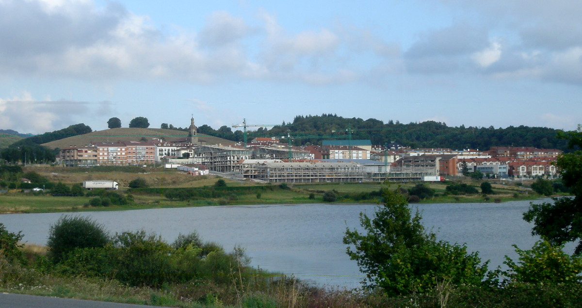 View of Legutio (Araba, Basque Country, Spain)